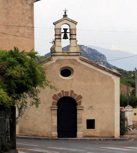 Chapel in the town of Beaumes-de-Venise in Vaucluse, France